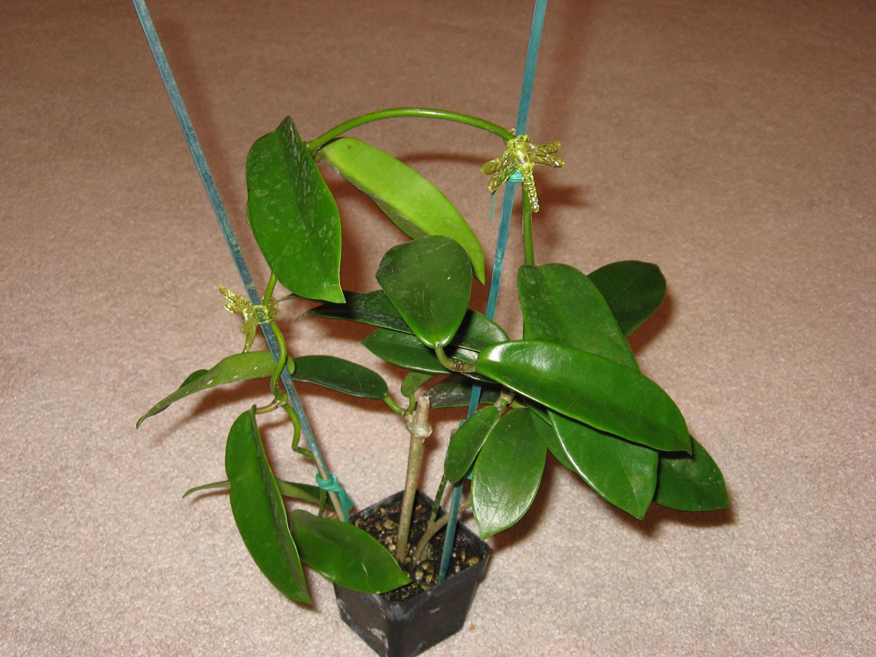 This is a picture of a hoya meliflua.